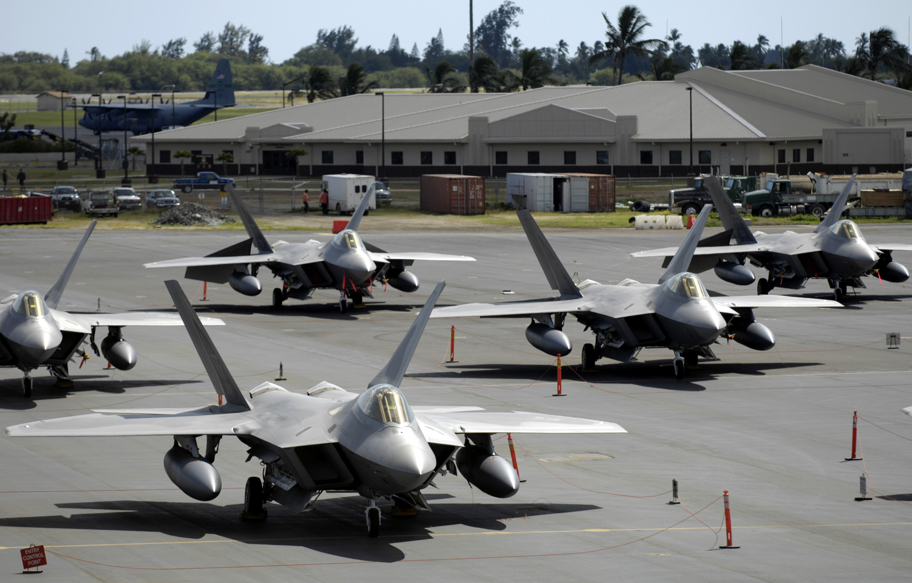 F-22 Raptors sit on the flight line at Hickam Air Force Base, Hawaii Feb. 12, 2007. The F-22Õs and more than 250 Airmen from the 27th Fighter Squadron at Langley Air Force Base, Va., are bound for Kadena Air Base, Japan, for the aircraftÕs first overseas operational deployment.